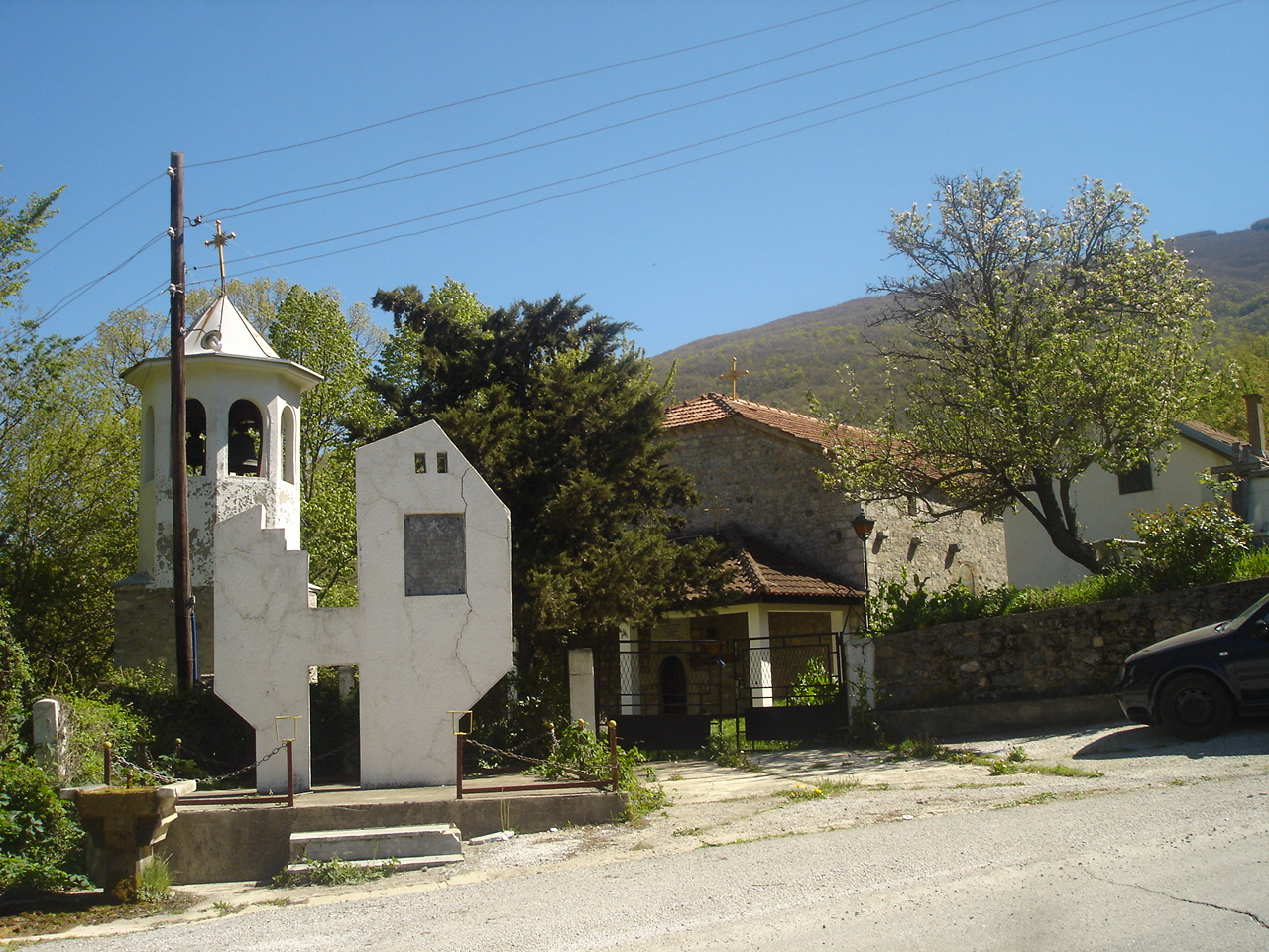 village of Dolno Melnichani, near Debar, Macedonia